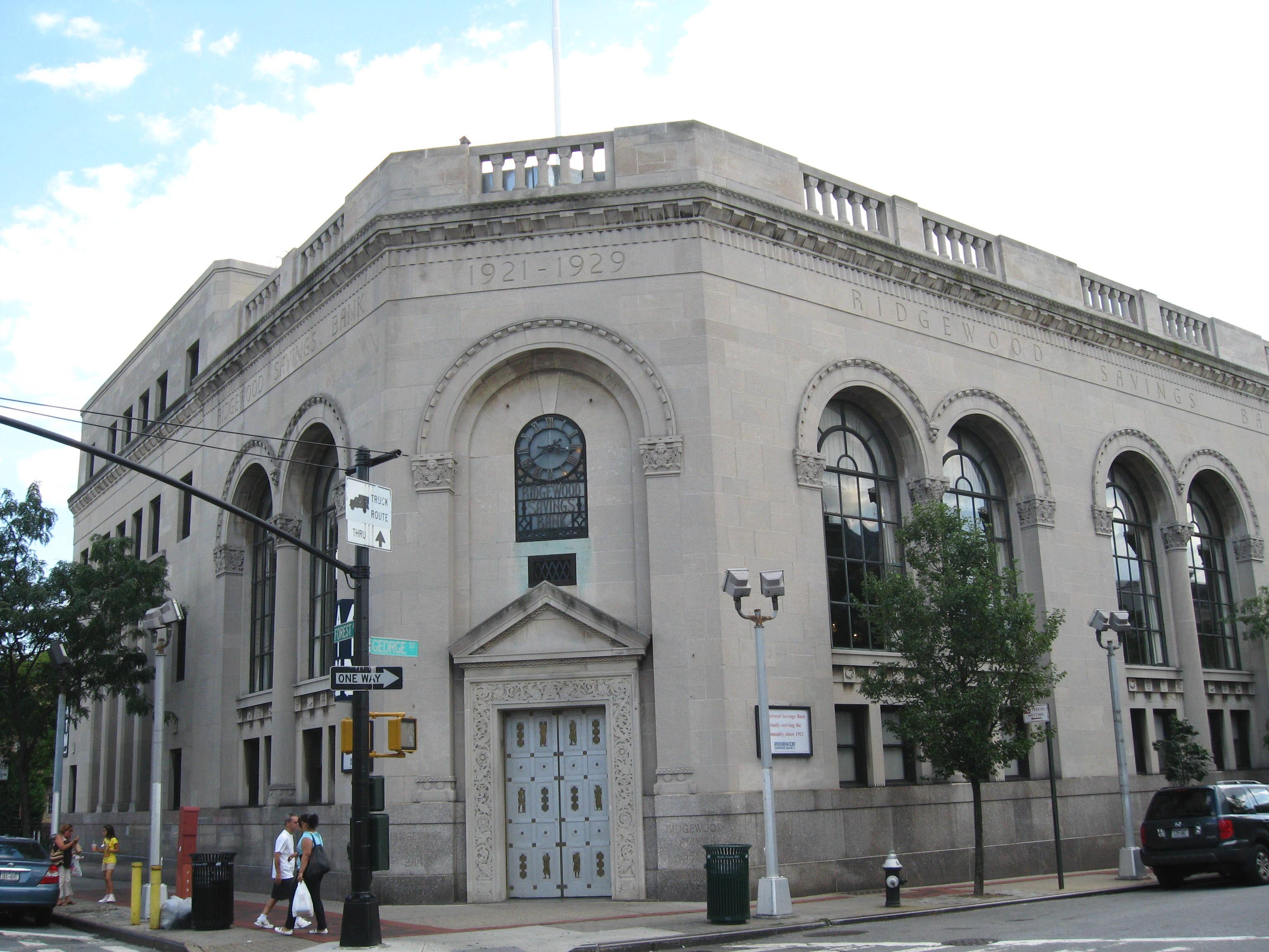 Looking southeast from Myrtle Avenue at Ridgewood Savings Bank on corner of Forest Avenue and George Street in Ridgewood, Queens